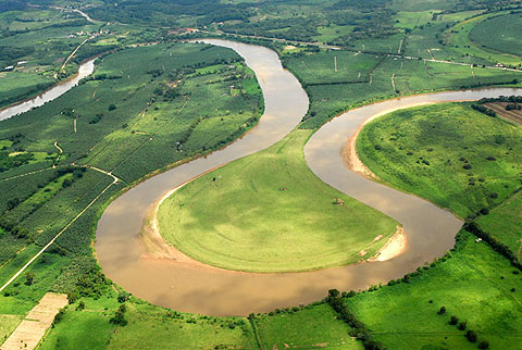 Picture Rio Ribeira PR/SP Brasil